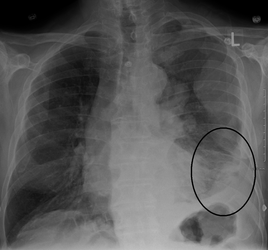 Mesothelioma of the left lower lung.